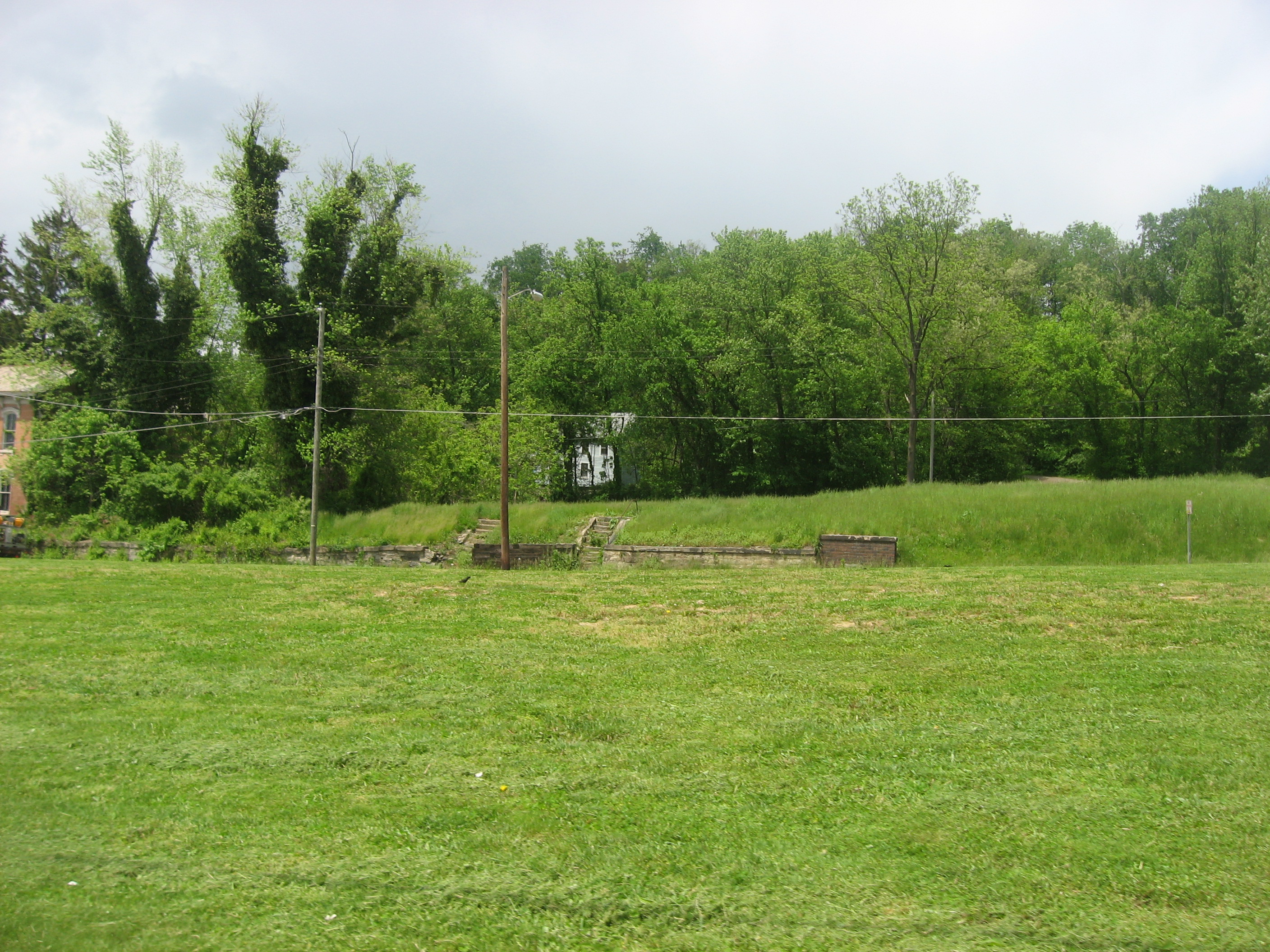 Site of the William R. Smith House, located at 920 Marietta Street (State Route 146) in Zanesville, Ohio, United States. Listed on the National Register of Historic Places in 1982 and subsequently destroyed, it has not yet been delisted.